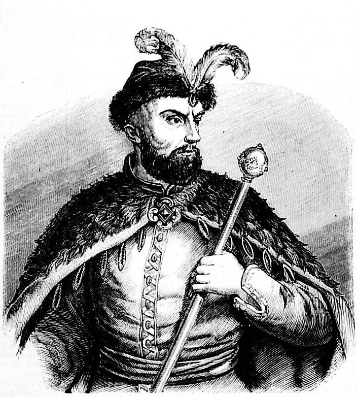 Mychailo Fartukh's portrait of Petro Doroshenko